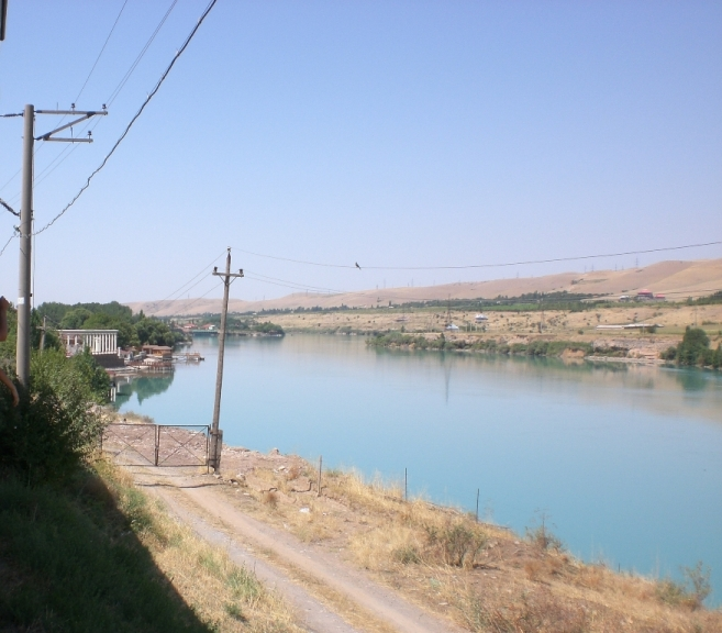 Chirchik River